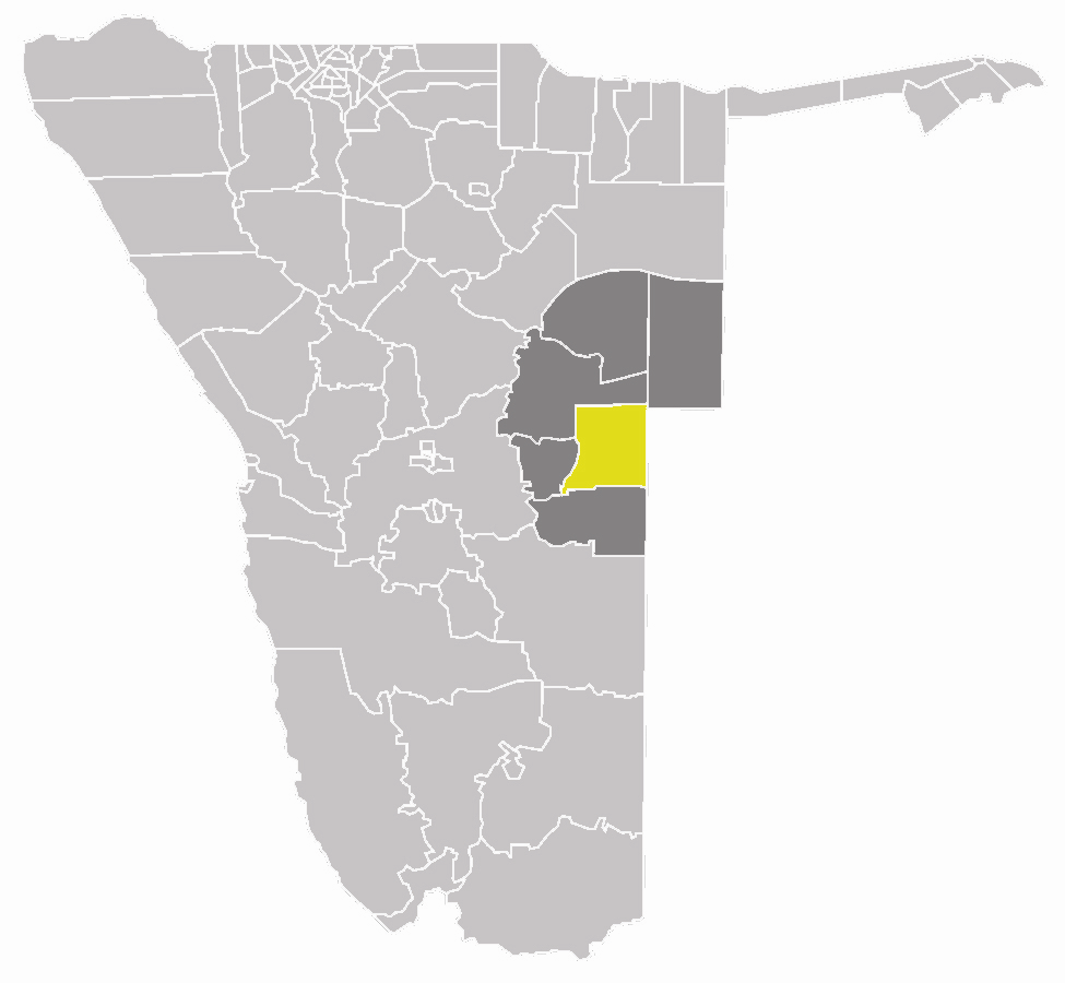 map of the Kalahari constituency within the Omaheke region, Namibia